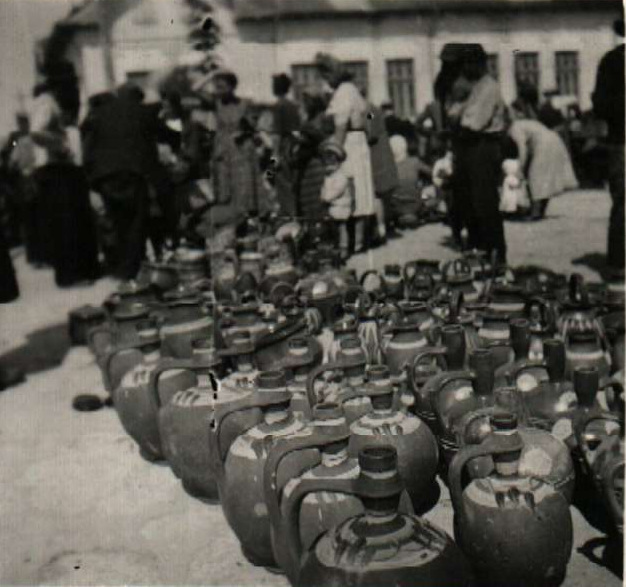 Pottery in Bulgaria